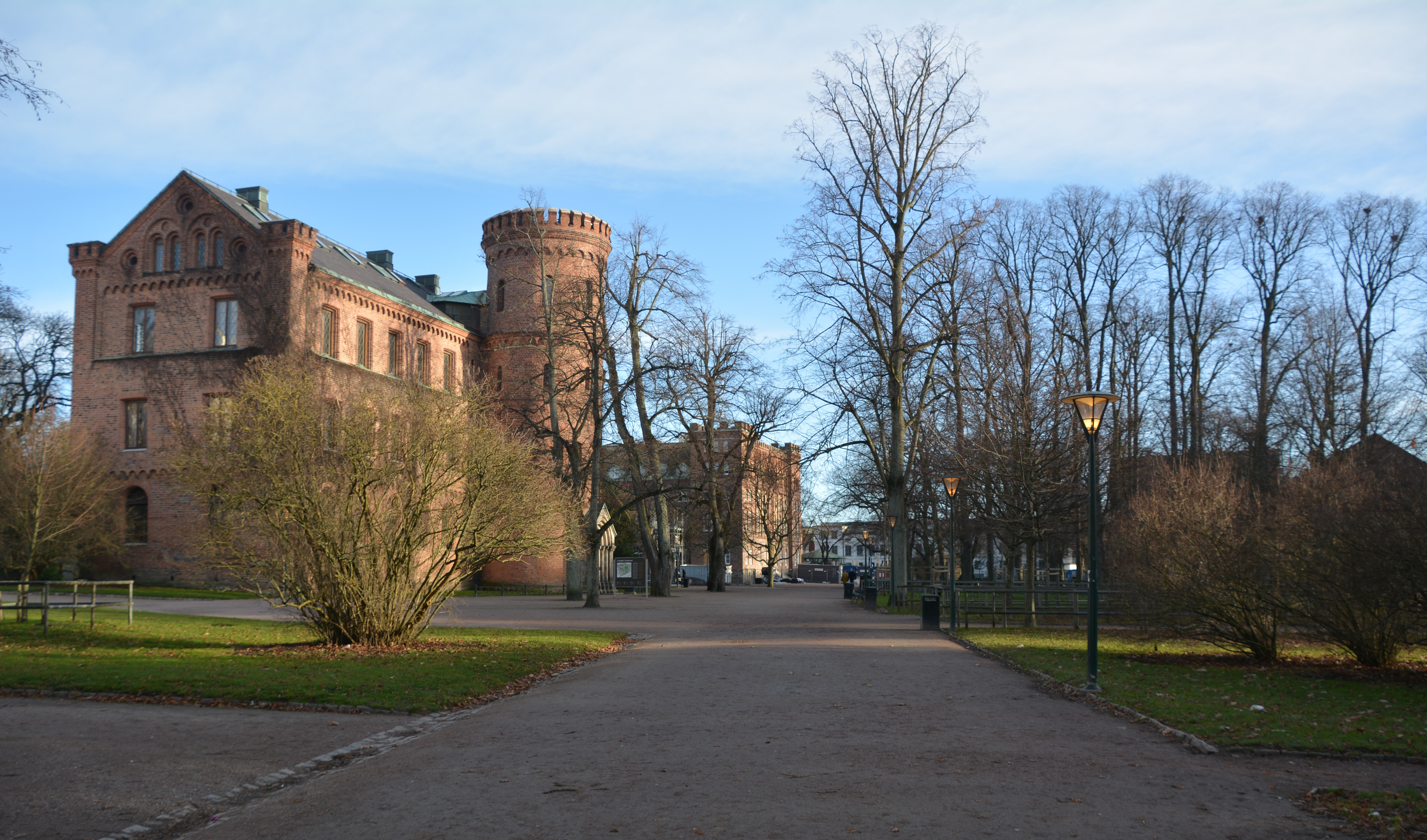 Lundagård in January 2020